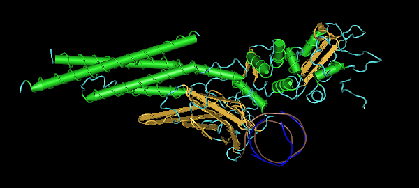 Crystal structure of STAT1 bound to DNA. Produced with Cn3D using coordinates from PDB (1BF5)